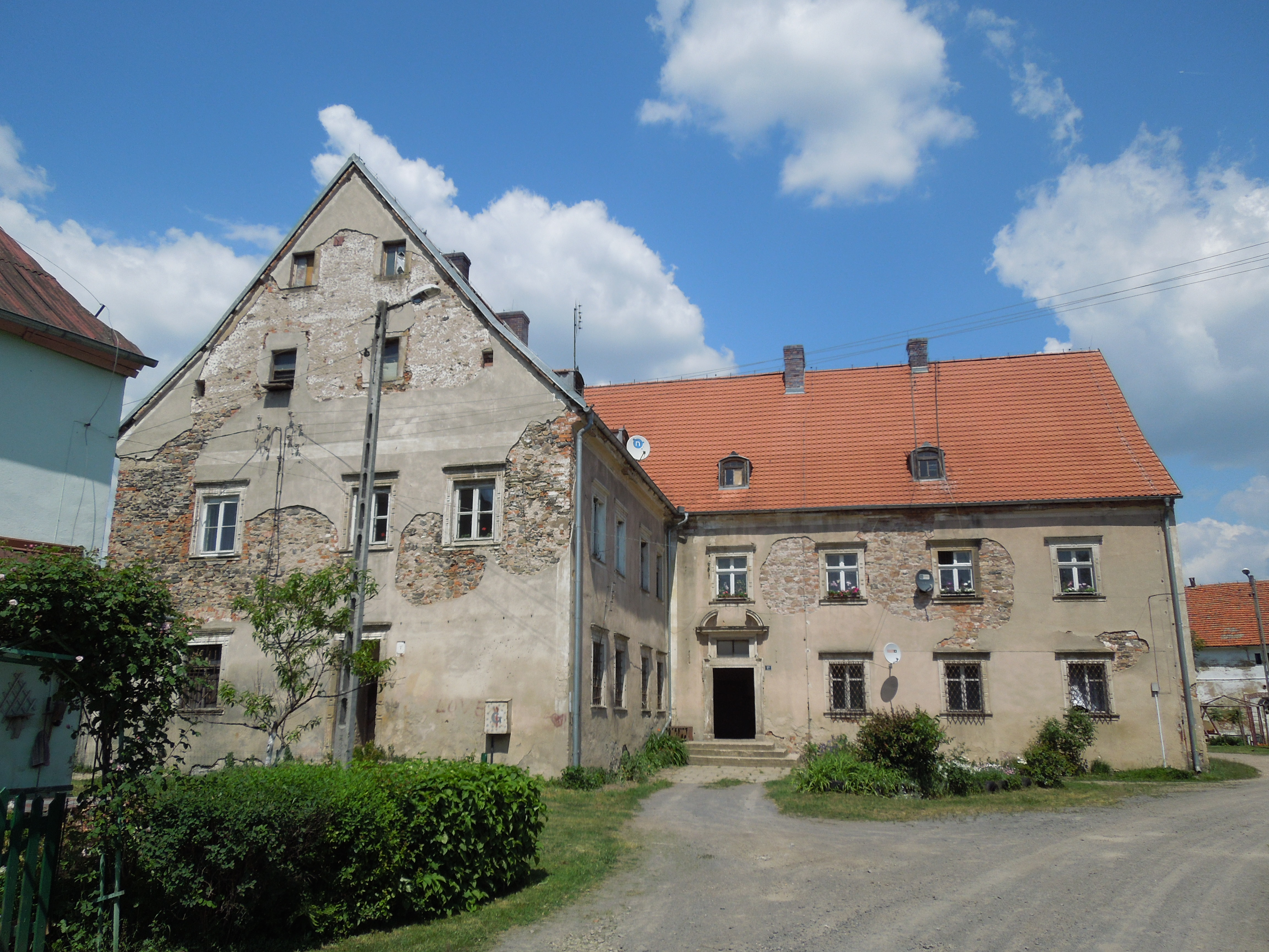 Krajów (German: Krayn): erstwhile castle of the Counts von Schweinitz